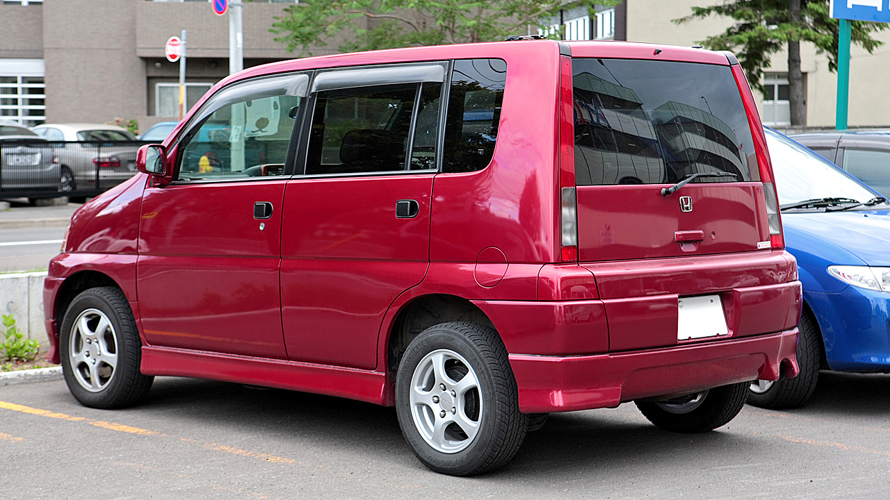 Honda S-MX